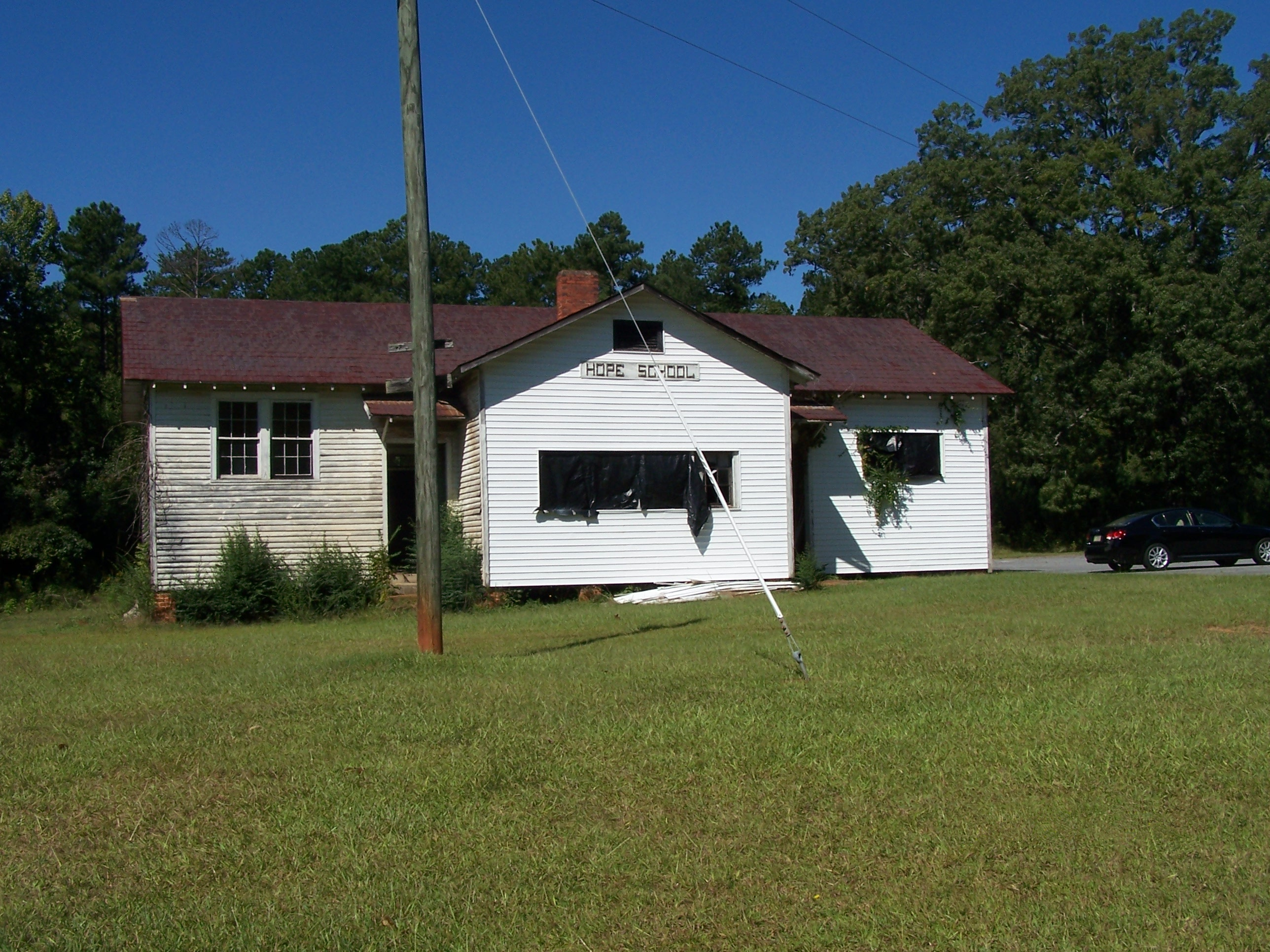 Hope School before renovation.